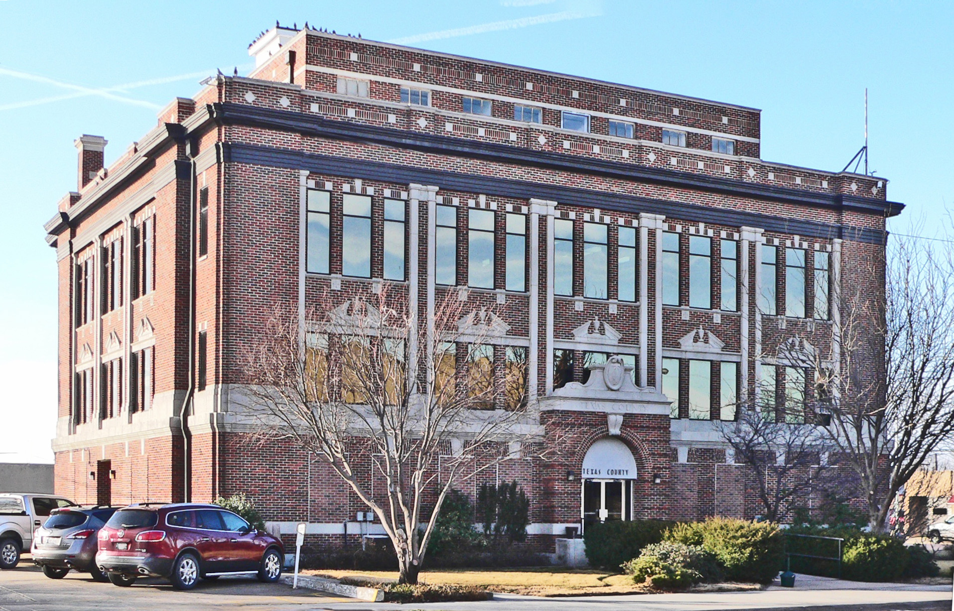 Texas County courthouse, located in Guymon, Oklahoma; seen from the northeast.